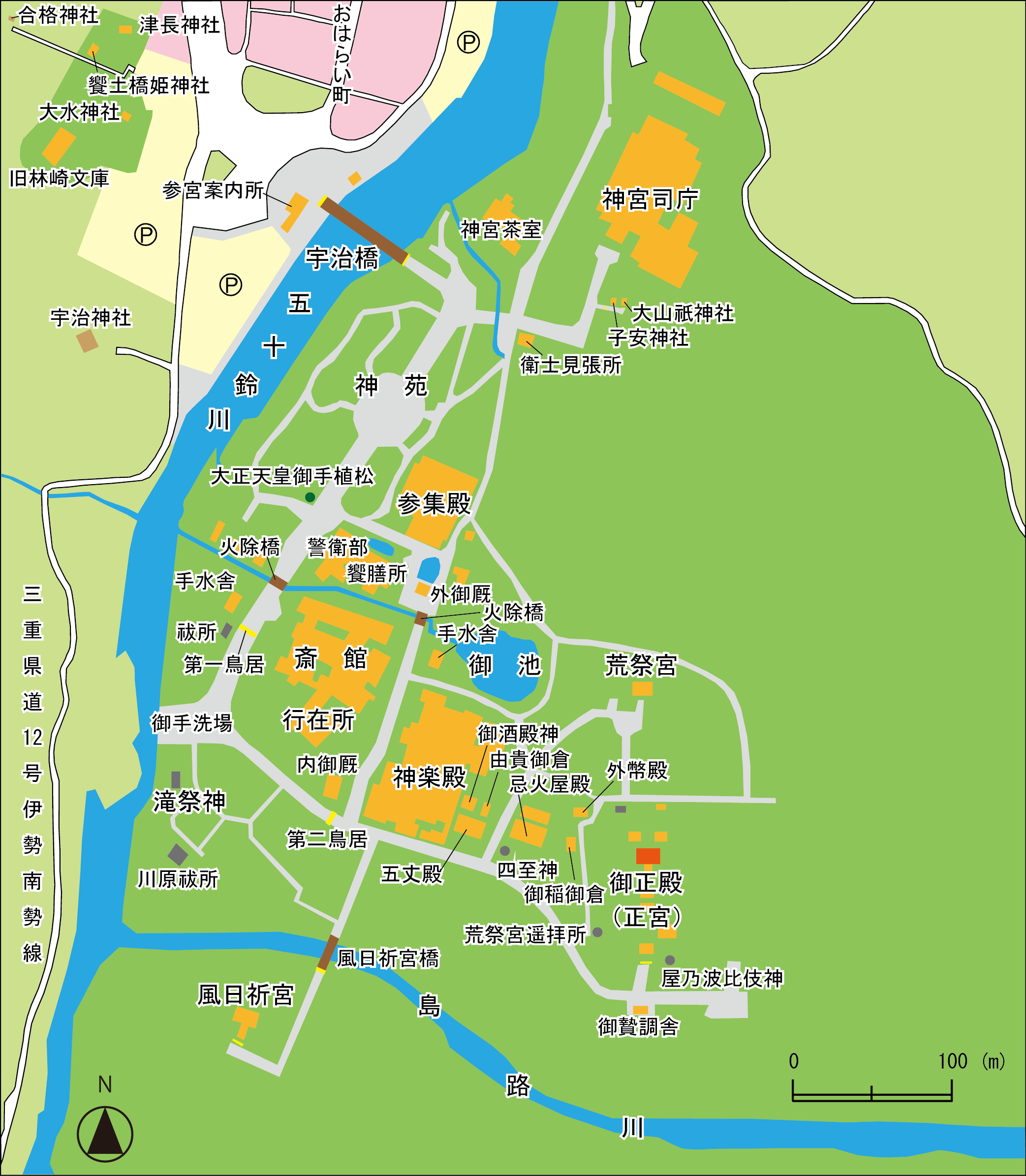 This is a map of Ise Jingu Naiku. Base map is OpenStreetMap. I also used these materials: * Fukuyama Toshio et, al.(1975):"Jingu: Dai 60 Kai Jingu Shikinen Sengu"Shogakukan Inc., tokyo, Japan.* Gakken Publishing Co.,Ltd.(2013)”Ise Jingu ni Iko"Gakken Mook Shrine Travel Literature vol.1, supervisor: Sonoda Minoru, Gakken Marketing Co.,Ltd., Tokyo, Japan. ISBN 978-4-05-610047-1 * ISEBUNKASHA ed.(2008):"Oise-san 125 Sha Meguri"Bessatsu "Isebito", ISEBUNKASHA, Ise, Japan. ISBN 978-4-900759-37-4* Ise Chamber of Commerce and Industry & ISEBUNKASHA eds.(2006):"Kenkei Oise-san Official Textbook"Ise Chamber of Commerce and Industry & ISEBUNKASHA, Ise, Japan. ISBN 4-900759-31-7* Publishing Division Domestic Information Section 3rd Editorial Department ed.(2014):"Rurubu Oise Mairi"Rurubu Joho Ban Kinki 21, Vol. 4615, JTB Publishing, Inc. Tokyo, Japan. ISBN 978-4-533-09761-4* "Ima Iku! Ise Jingu Omairi Perfect Book"Mirai Publishing Co., Ltd, tokyo, Japan. 2013, ISBN 978-4-907292-14-0* Map of Geospatial Information Authority of Japan* Zenrin House Map Print Service* Naiku Map(official site of Ise Jingu)